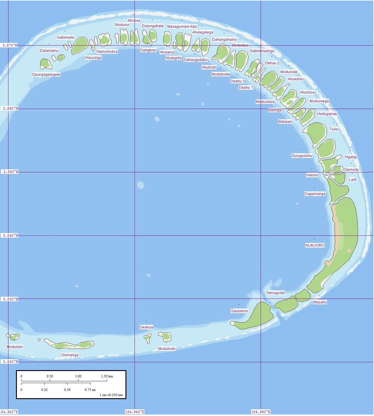 Nukuoro Atoll, Caroline Islands, Micronesia: Map of rim of islands (western portion of Atoll is not shown, has no islands)